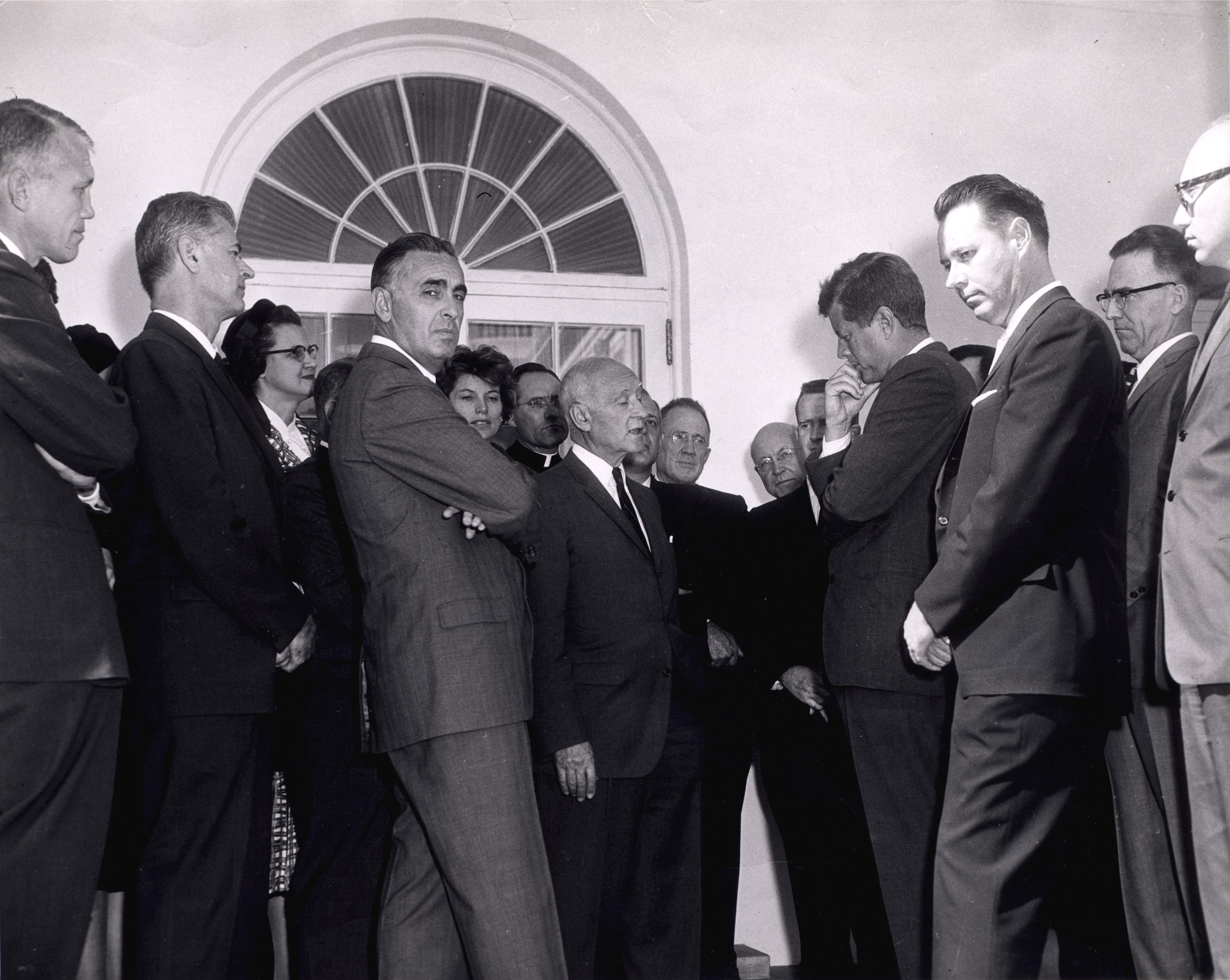 President John F. Kennedy greets members of the President's Panel on Mental Retardation in the White House Rose Garden on October 18, 1961. Kennedy's family was personally affected by the mental retardation of one of his sisters and the President sought to foster into the causes of the condition. Lederberg, who had advised Kennedy on health matters as a member of his transition team, began investigations into the genetics of mental retardation not long after his arrival at Stanford University in 1959 and brought his expertise to the President's newly-formed panel. Lederberg continued to advise policy-makers on mental retardation throughout the 1960s. Lederberg is standing at the far right, with Ribicoff toward the left facing the camera and Stanley in the far back.